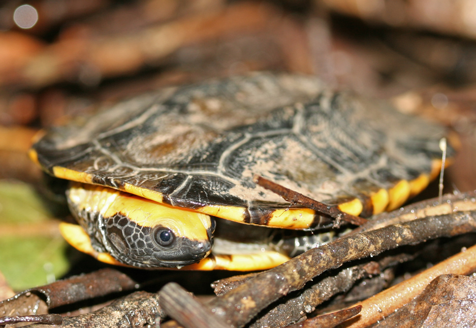 Twist-necked Turtle (Platemys platycephala) at Tambopata Reserve, Amazon Basin, Peru